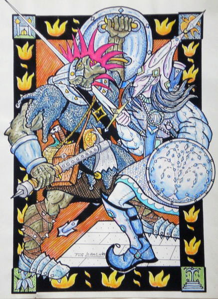 Ecthelion of the Fountain, an elf from J.R.R. Tolkien's fictional work The Silmarillion, is portrayed slaying an orc named Orcobal during the invasion of the city of Gondolin which Ecthelion was defending.